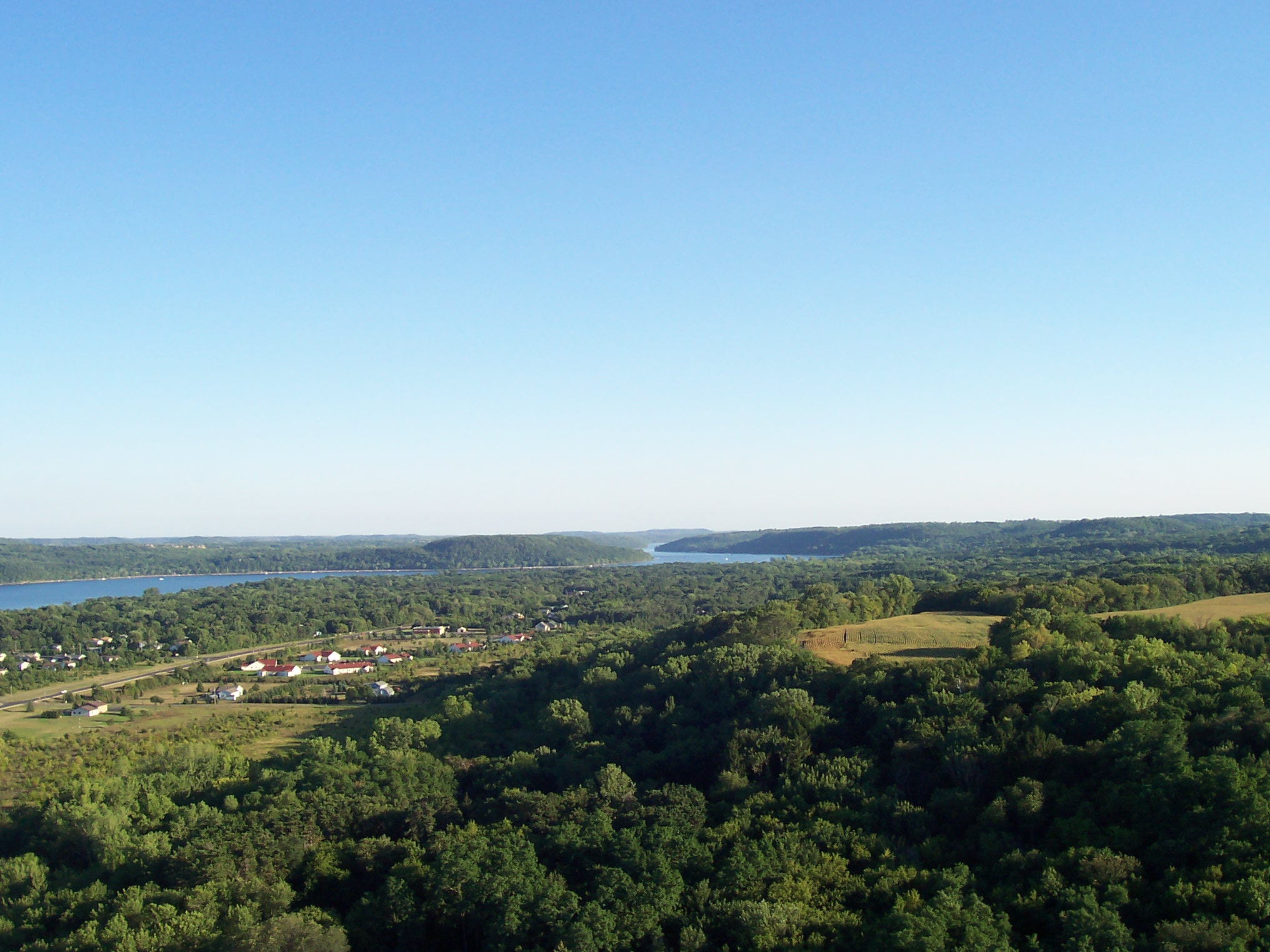 Picture taken by me, August 2007